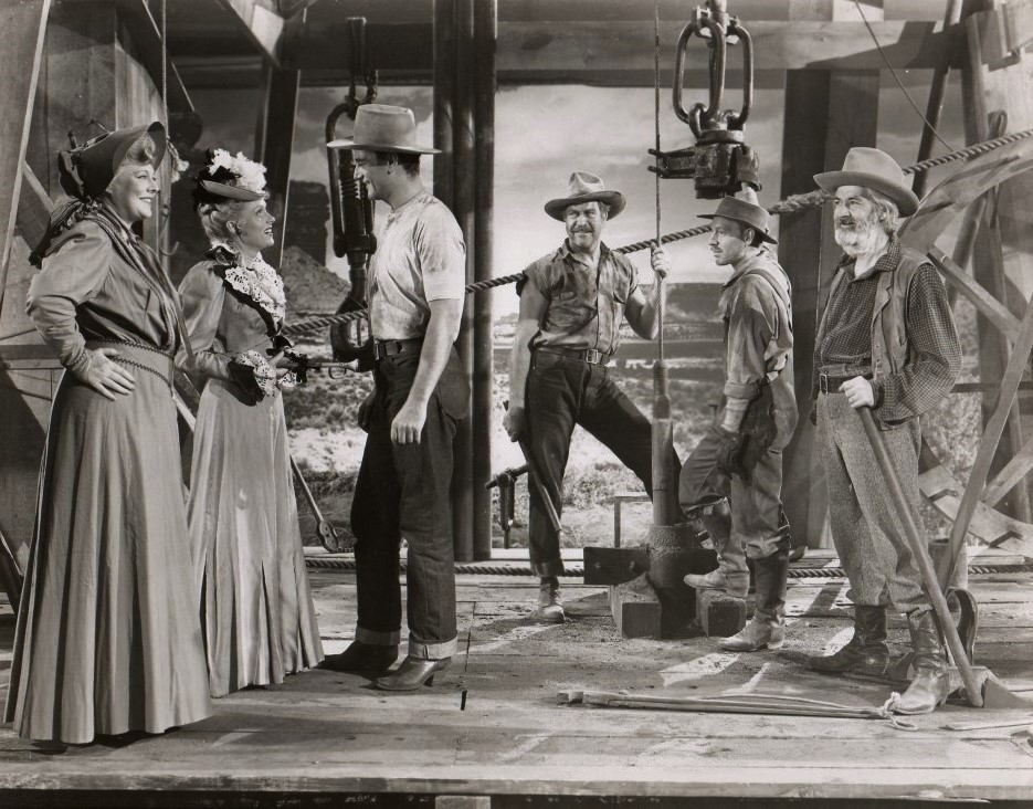 L. to R. : Marjorie Rambeau, Martha Scott, John Wayne, Grant Withers, Byron Foulger & Gabby Hayes in In Old Oklahoma aka War of the Wildcats - publicity still (cropped)